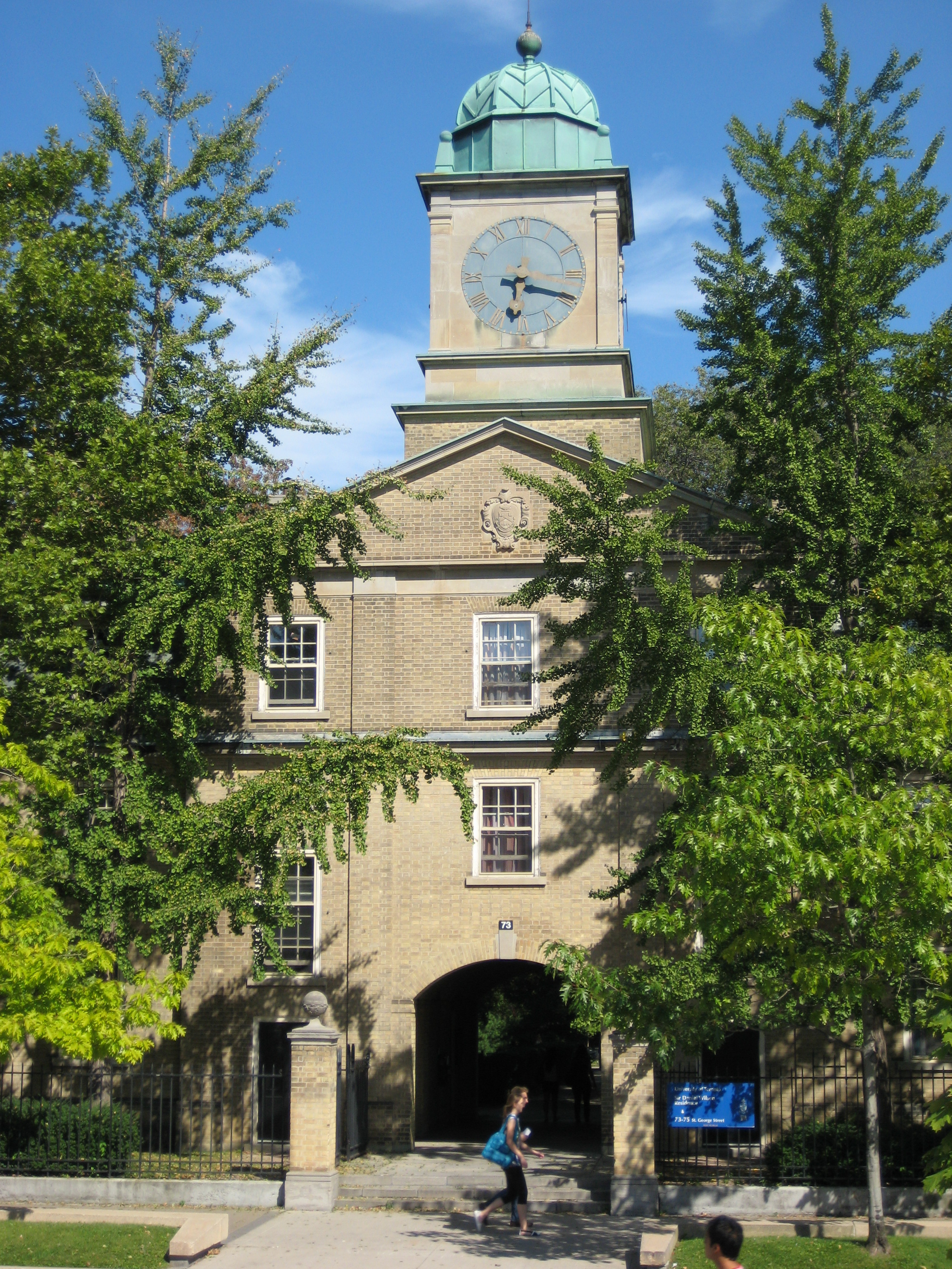 Sir Daniel Wilson Residence at the University of Toronto